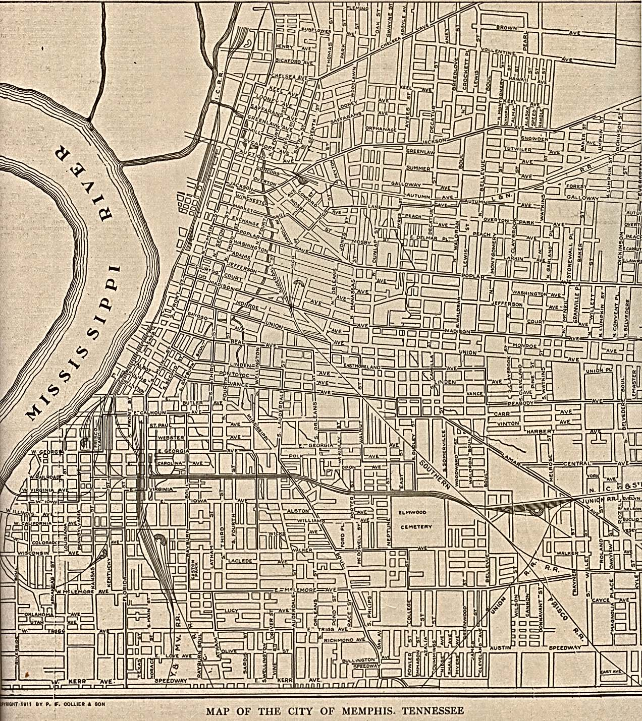 Map of Memphis in 1911 originally listed at